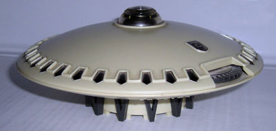 Souvenir Evoluon - radio receiver